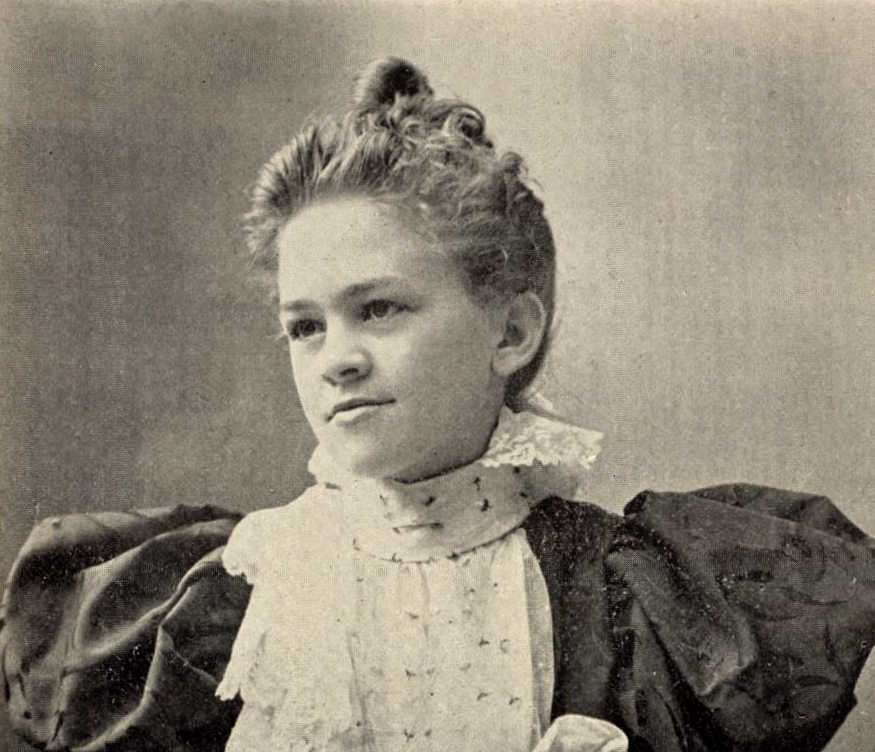 Portrait of Dr. Frances Daisy Emery Allen from the 1898 Fort Worth University student yearbook.